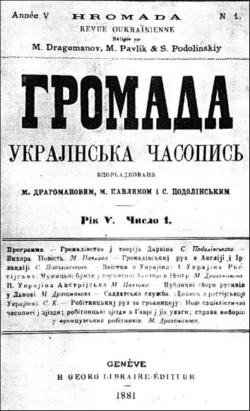 Cover of «Громада», a Ukrainian language journal published in Geneva in the late 1800s.